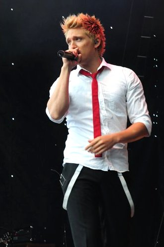 band, concert